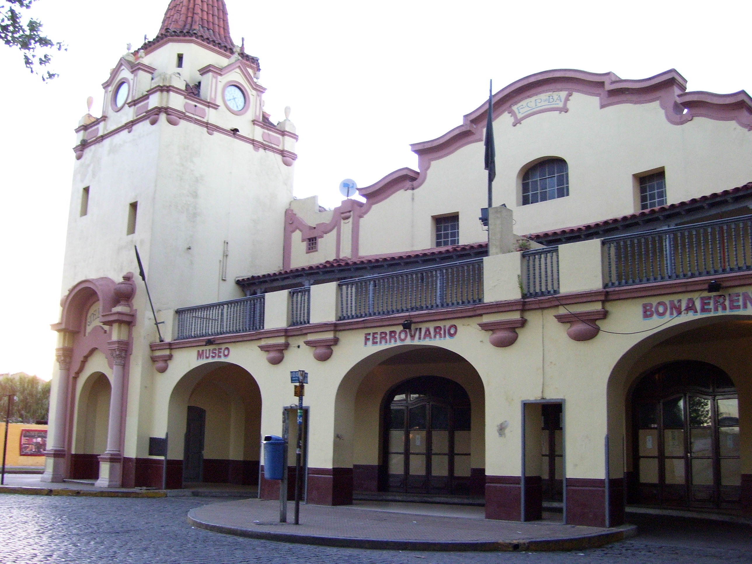 Former Avellaneda Station, of Provincial Railroad of Buenos Aires. Utter Railway Museum